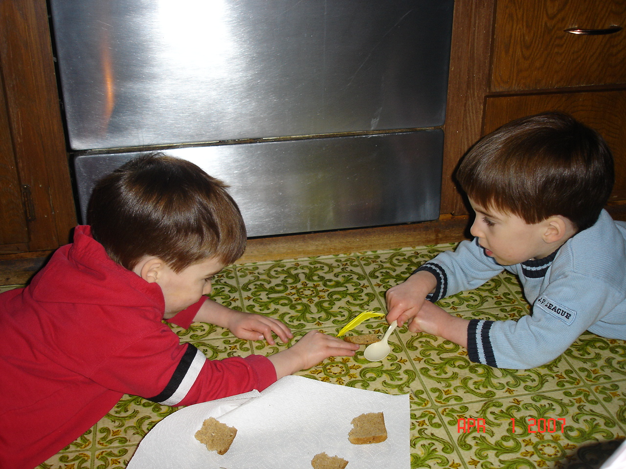 Two boys using spoons to search for Chametz, food (bread) forbidden during the Jewish holiday of Passover.